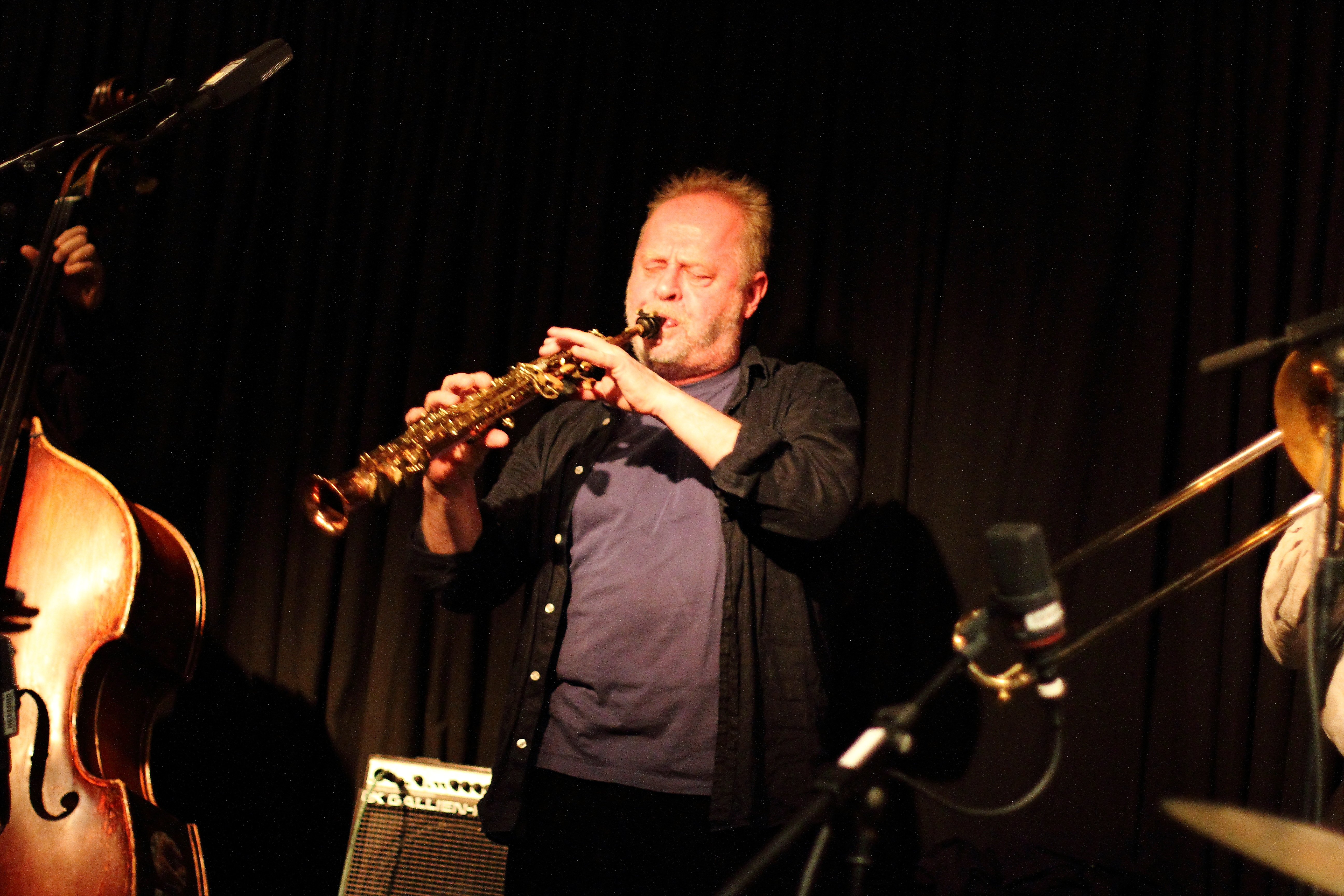 Quintet Moderne at Club W71, Weikersheim. Quintet Moderne are Teppo Hauta-Aho (db), Paul Lovens (dr), Harry Sjöström (sax), Sebi Tramontana (tb) und Phil Wachsmann (violin).